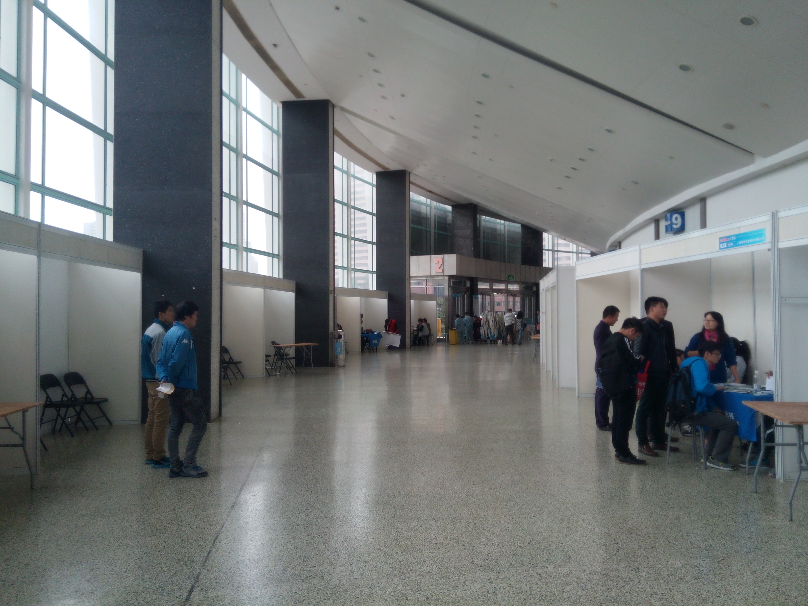 The inside of the Shanghai Indoor Stadium during a job fair